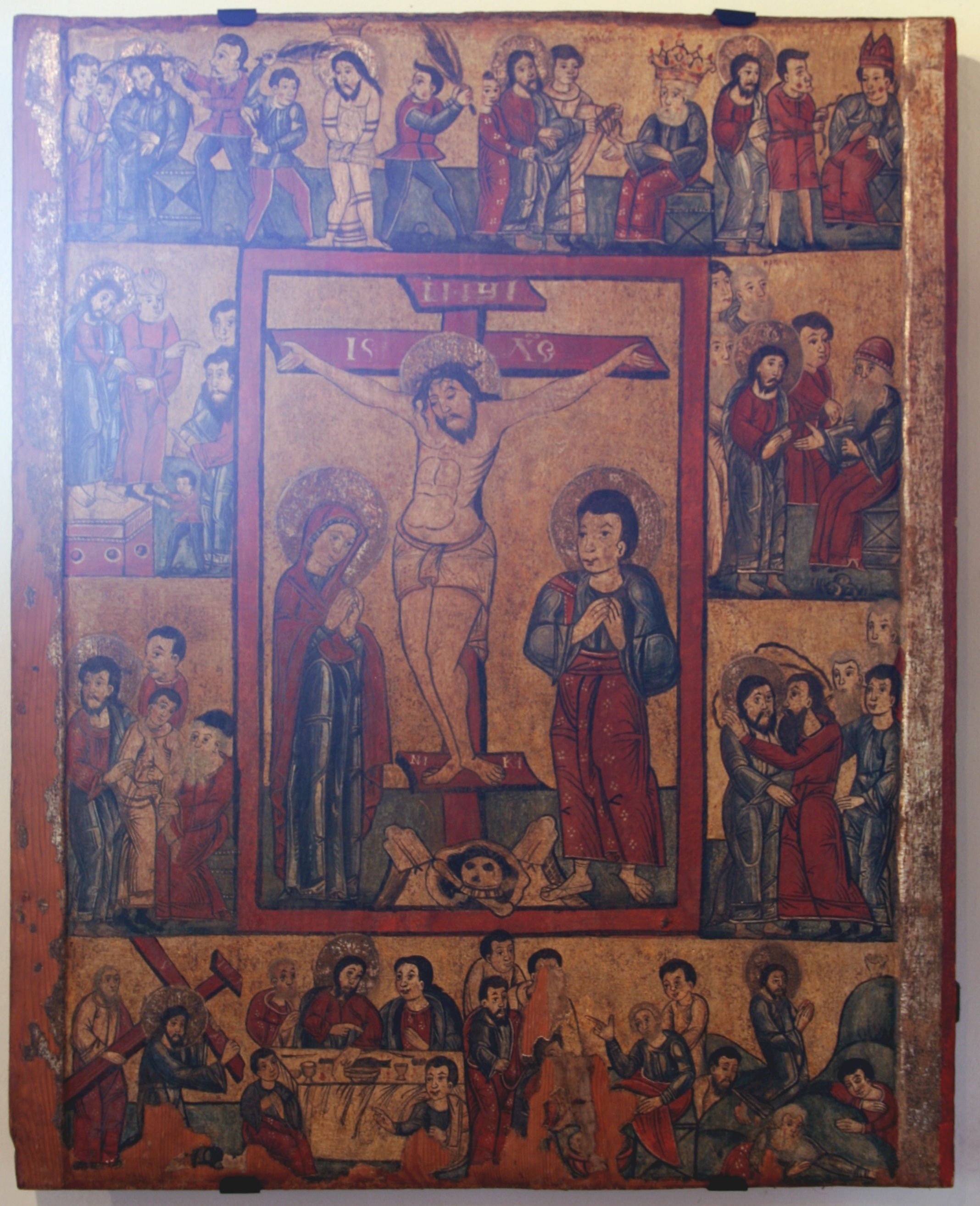 The Crucifixion - an icon 17th cent., Historic Museum in Sanok, Poland